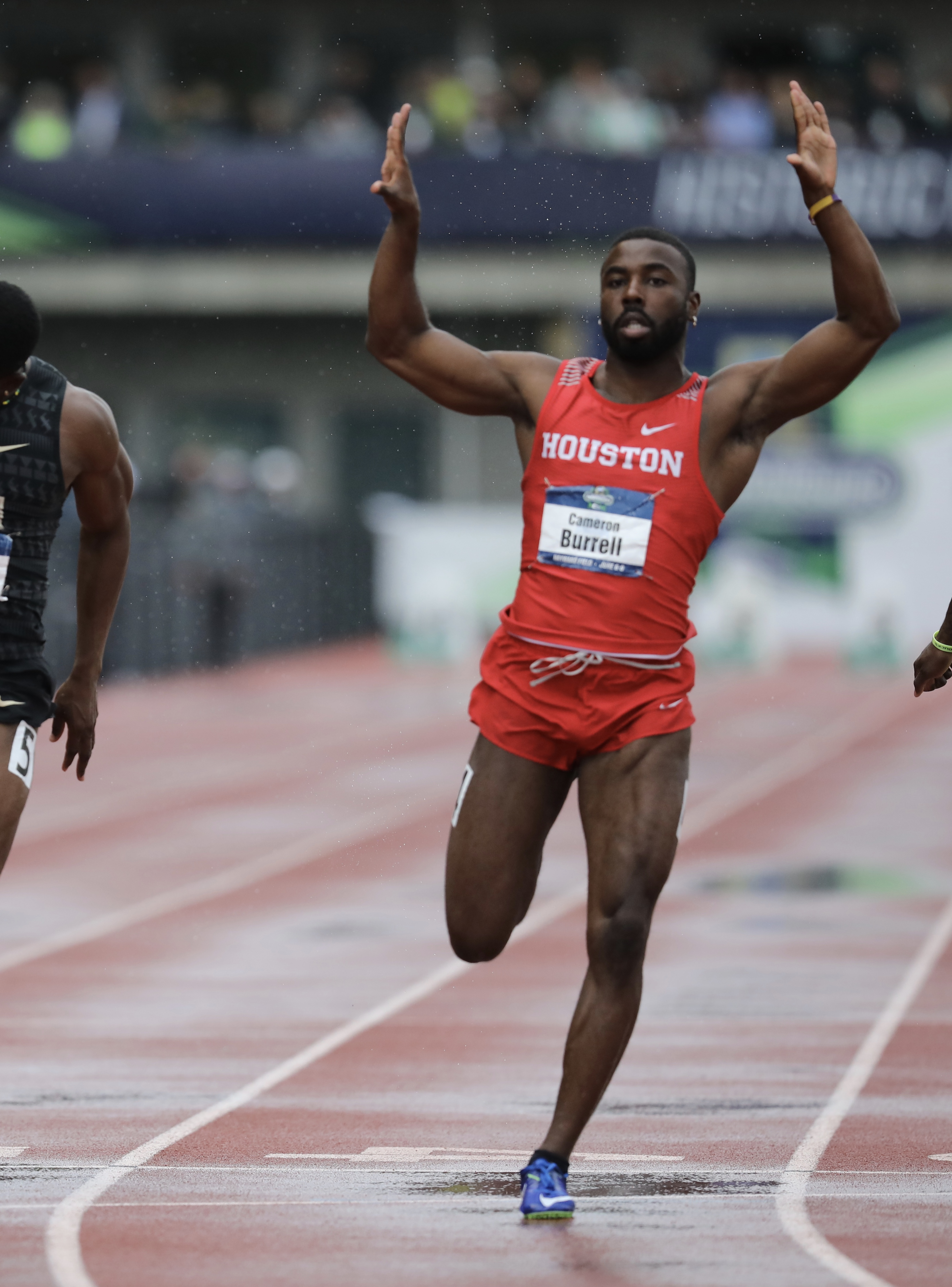 2018 NCAA Division I Outdoor Track and Field Championships